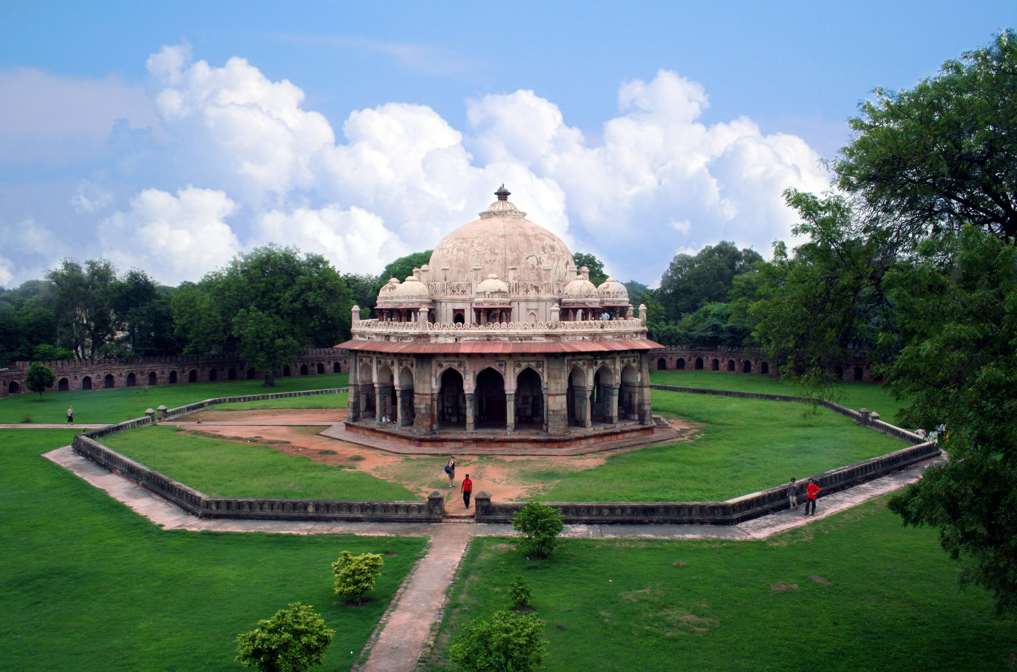 This is a picture of Isa Khan's tomb within the Humayun's Tomb complex, in Delhi, India.